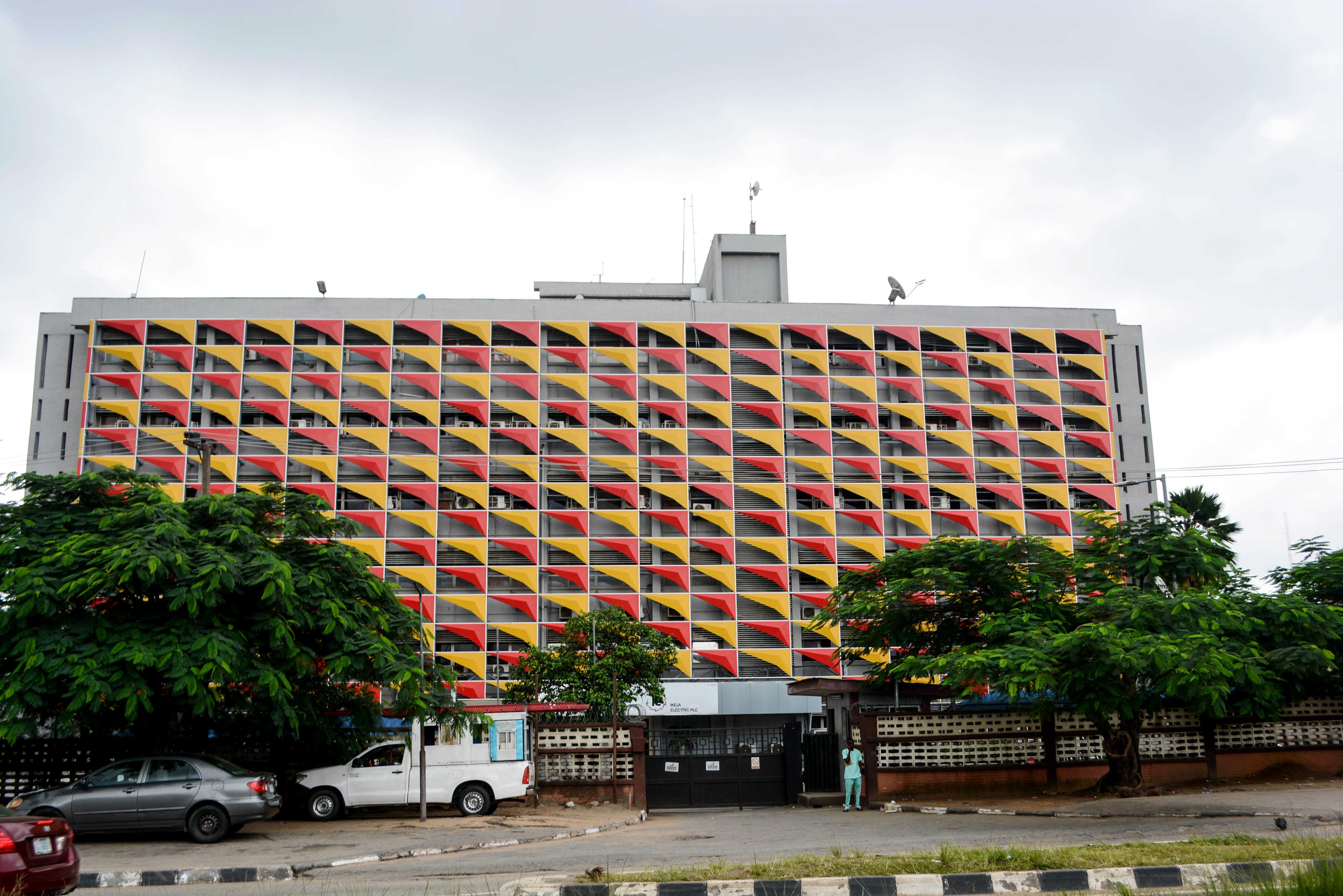 Opposite Minaj TV Station, Alausa